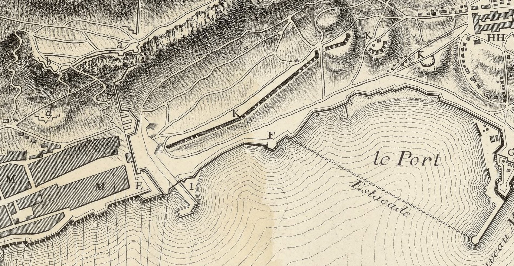 Map showing the Prince of Wales's Lines